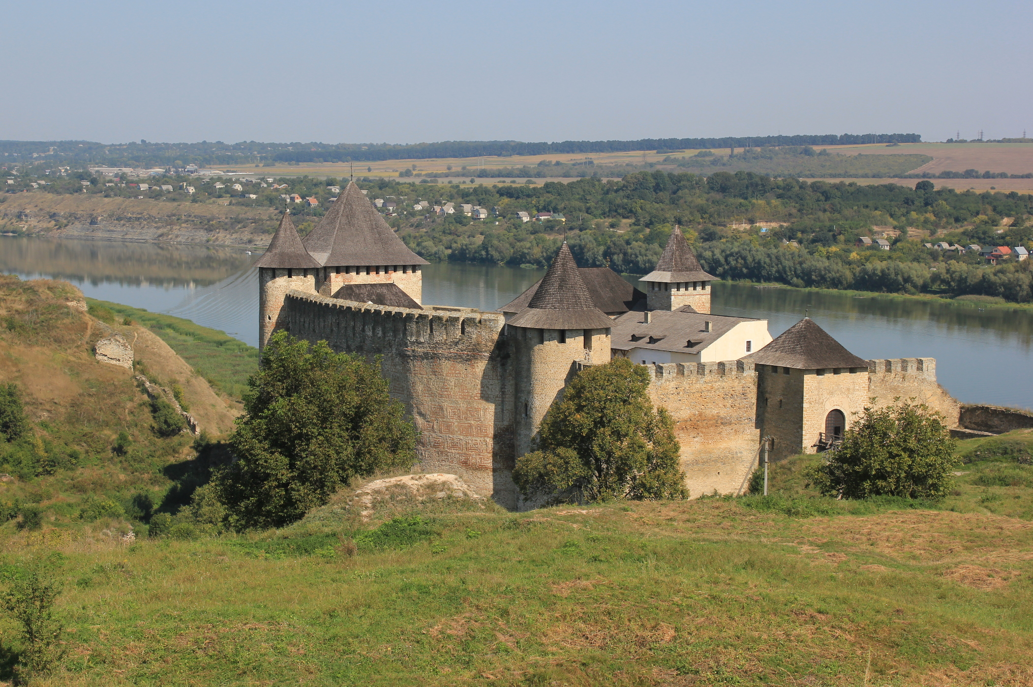 Khotyn Fortress in south-western Ukraine.